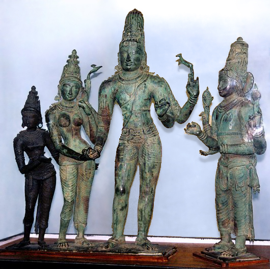 Bronzes of the Chola period / Tamil Nadu, seen here from left, unknown goddess, Parvati, Shiva and Vishnu.